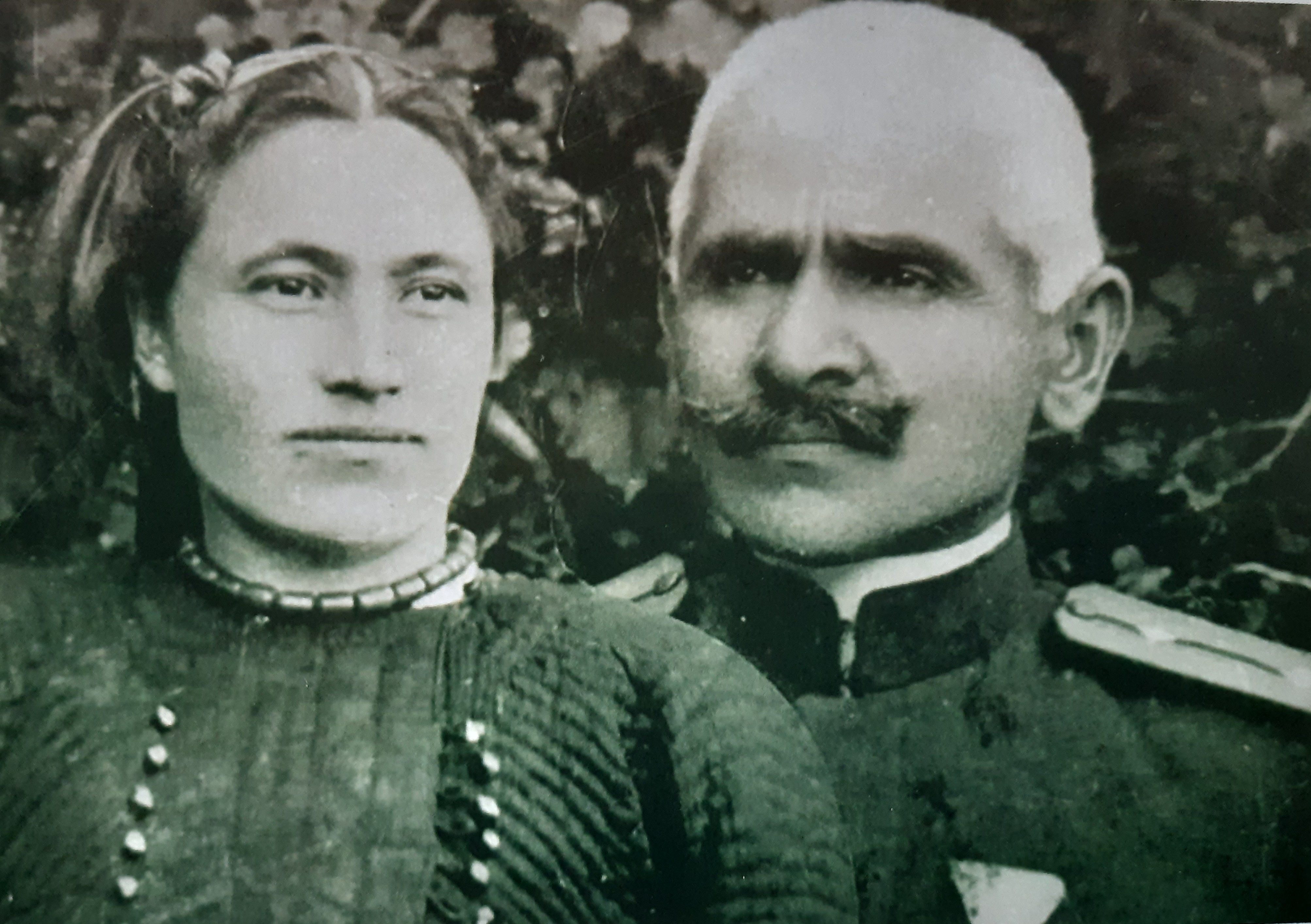 Pena and Stoyan Mitovski